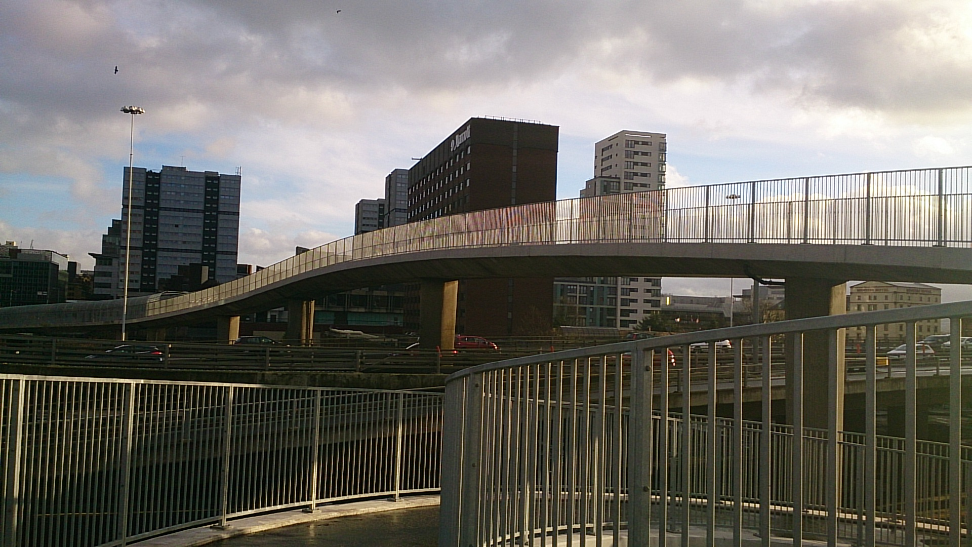 The Anderston Pedestrian Bridge, Glasgow, Scotland. following its final completion in 2013 after being left in an unfinished state for 41 years.